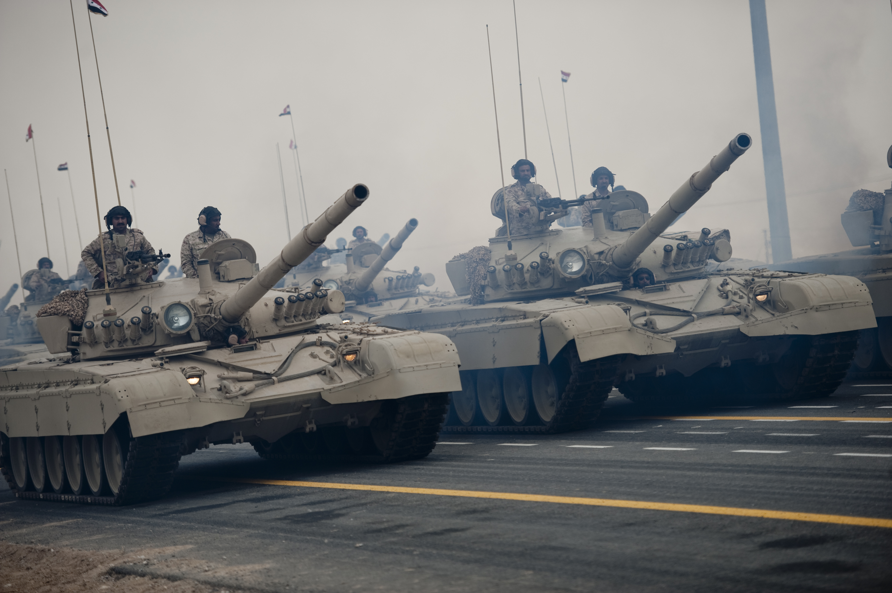 Kuwaiti M-84-tanks parading on February 25th and 26th; National and Liberation Day celebrations that marked the 50th anniversary of independence and the 20th anniversary of ousting forces of Saddam Hussein from Kuwait during the First Gulf War. Commemorating the participation of the Syrian Armed Forces during the First Gulf War; Kuwaiti M-84-tanks flew the Syrian Flag during the parade.(DoD photo by Mass Communication Specialist 1st Class Chad J. McNeeley/Released)